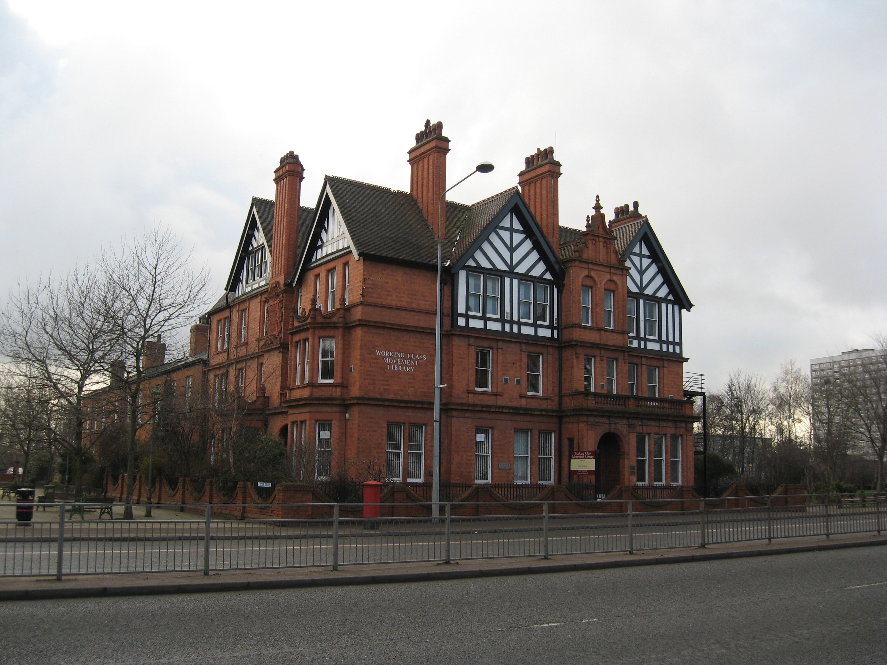 Working Class Movement Library, Salford The Working Class Movement Library started life in the 1950s as the personal collection of Edmund and Ruth Frow. It became a Charitable Trust in 1971 and moved to its present home in a Victorian building called Jubilee House on Salford Crescent in 1987.